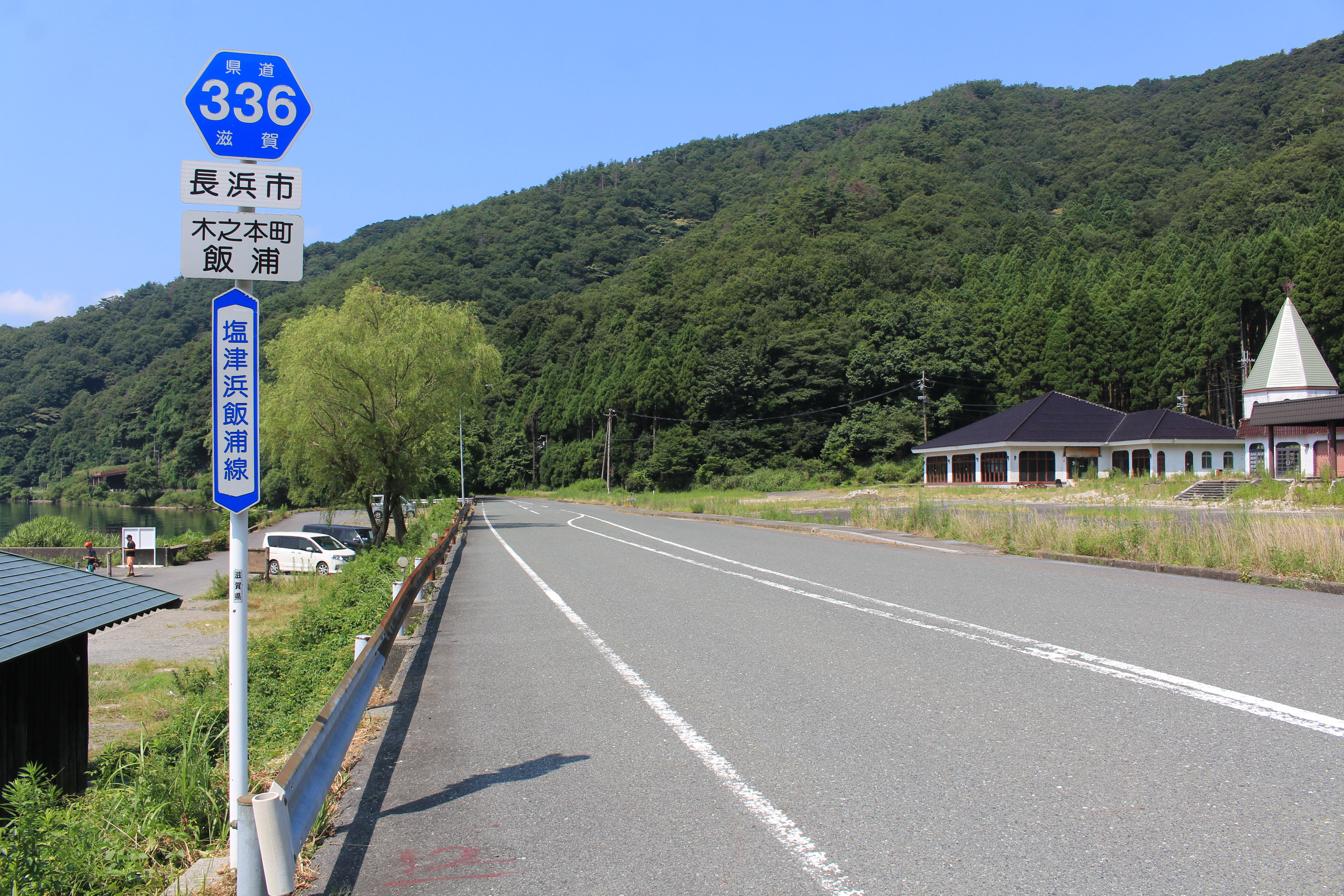 Shiga Prefectural Road Route 336 in Hannoura, Kinomotocho, Nagahama, Shiga prefecture, Japan.